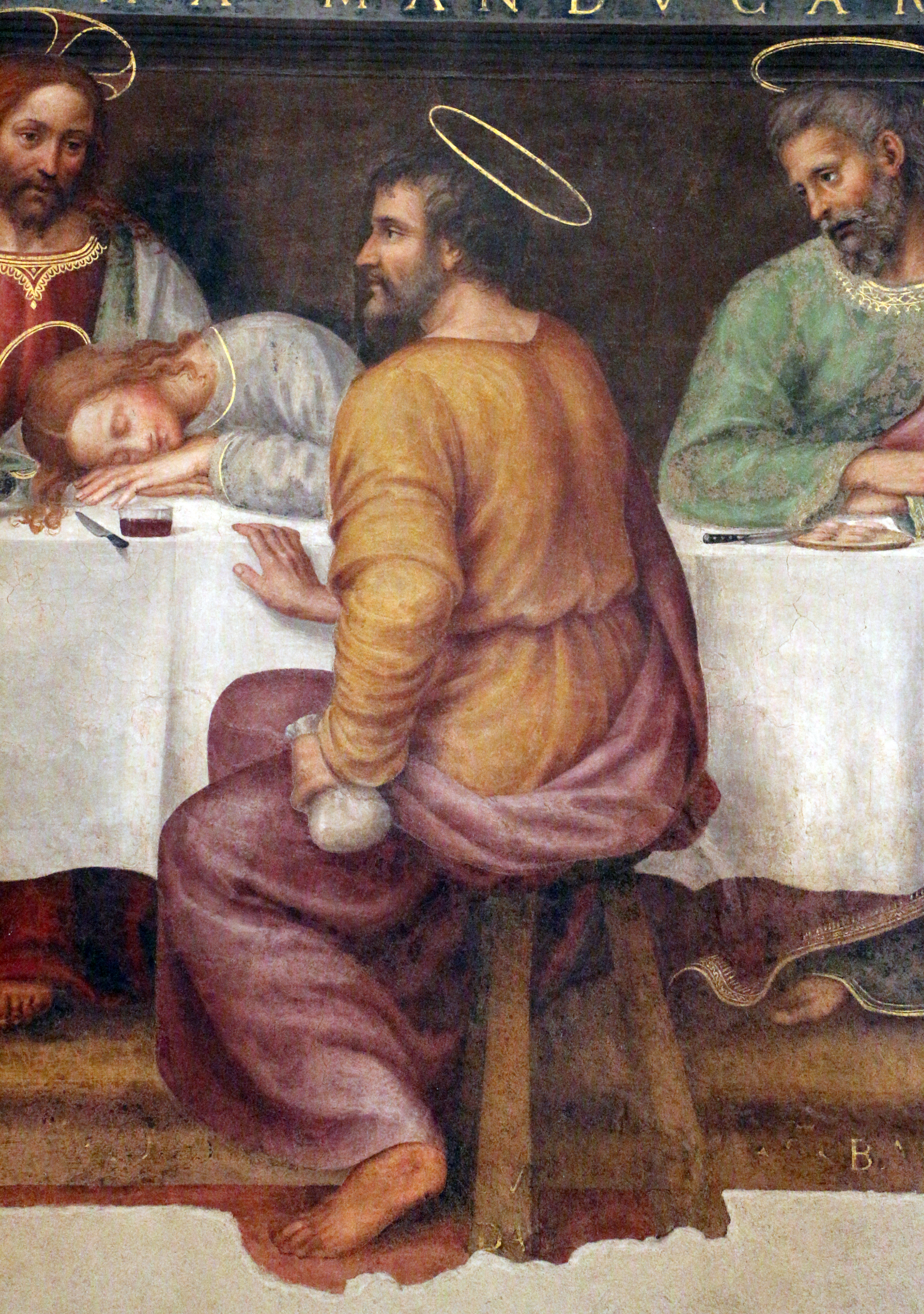 Candeli Last Supper